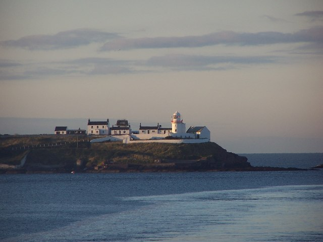 Roche's Point lighthouse. Cobh and Youghal Area, County Cork, Southwestern Ireland (Munster). Lighthouse from the Swansea- Cork ferry. The lighthouse that can be seen as you enter Cork harbour.